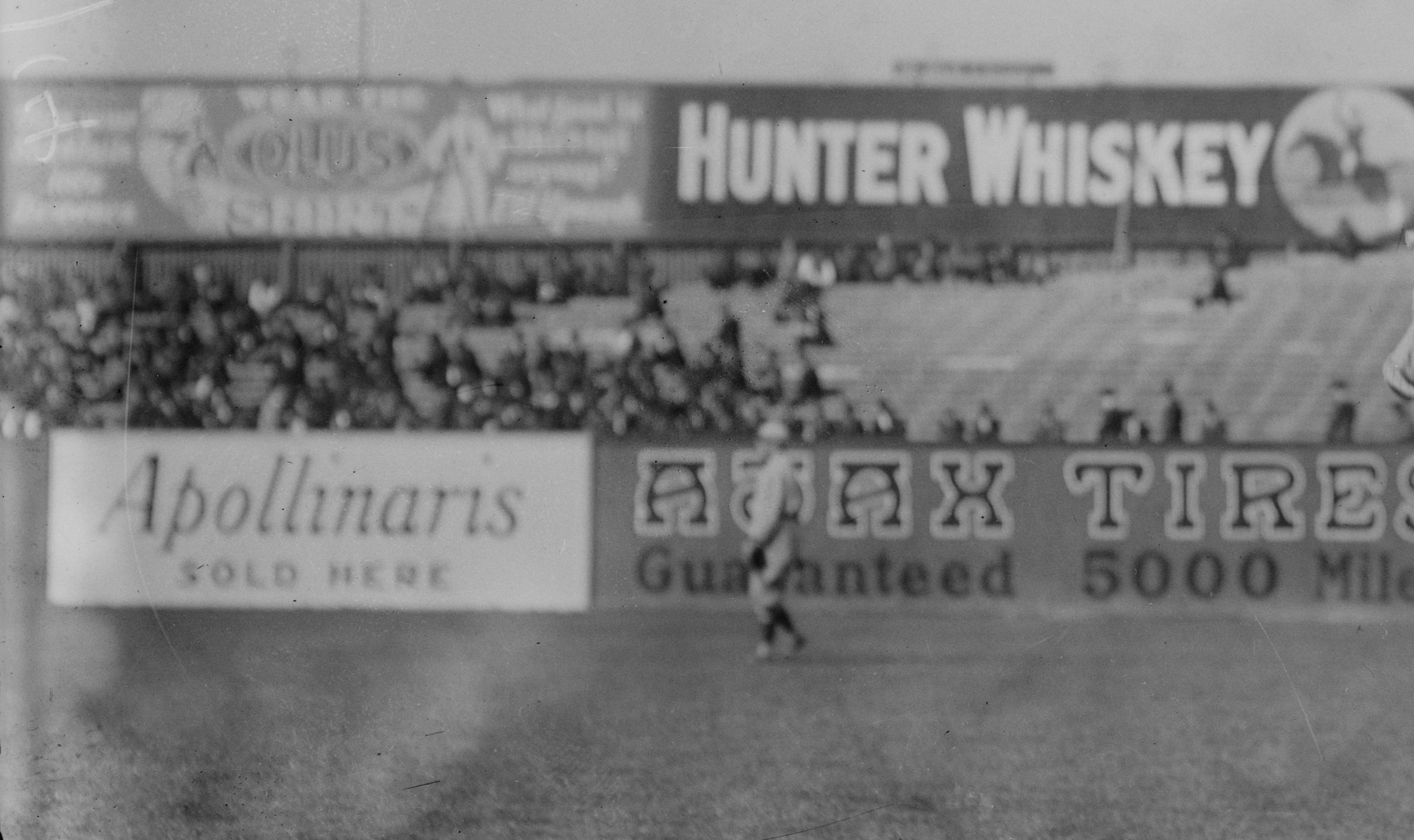 Title: Raleigh Aitchison, Brooklyn NL (baseball) Abstract/medium: 1 negative : glass ; 5 x 7 in. or smaller.